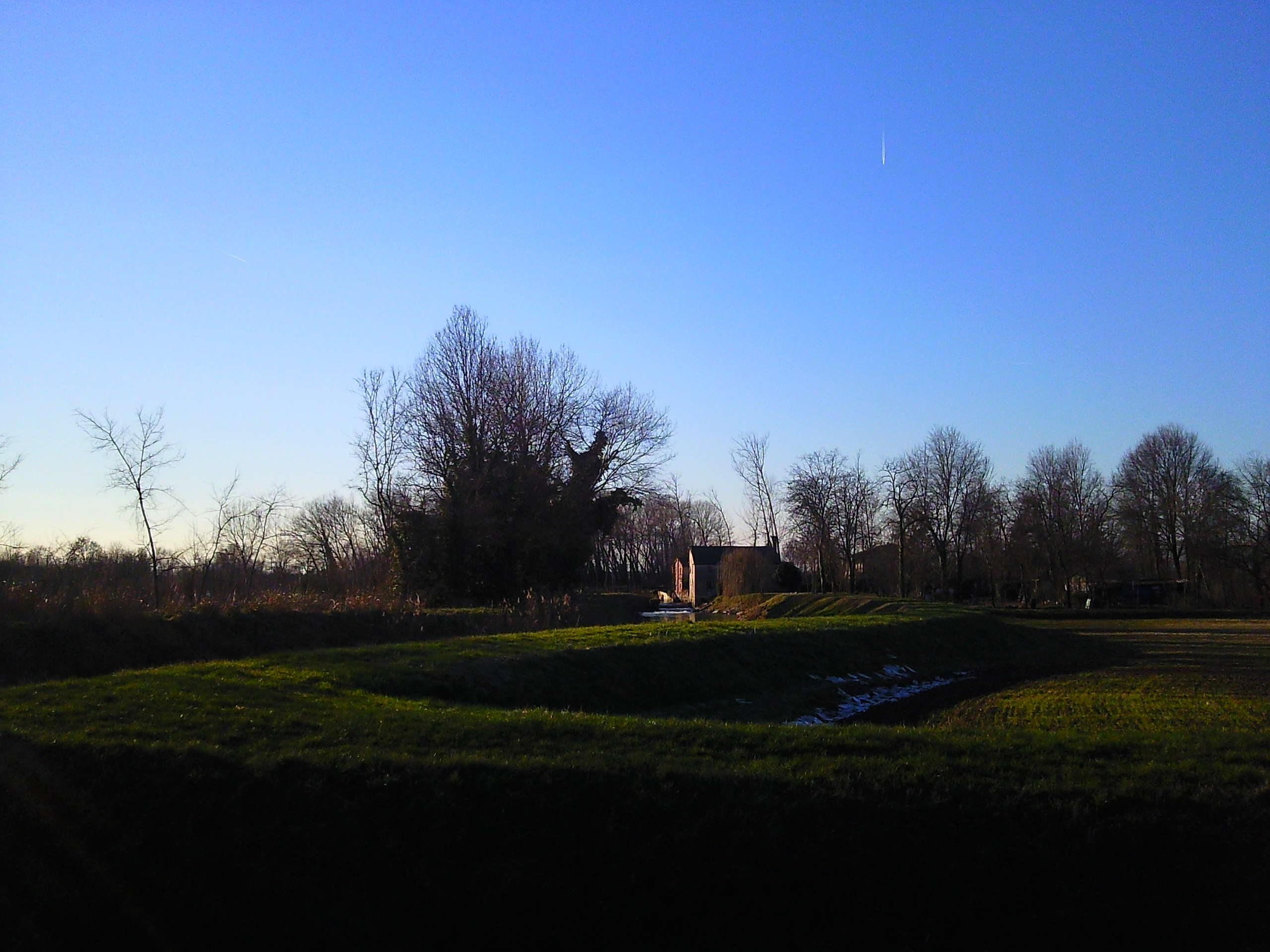 Foto del Mulino Cosma a Cappella di Scorzè